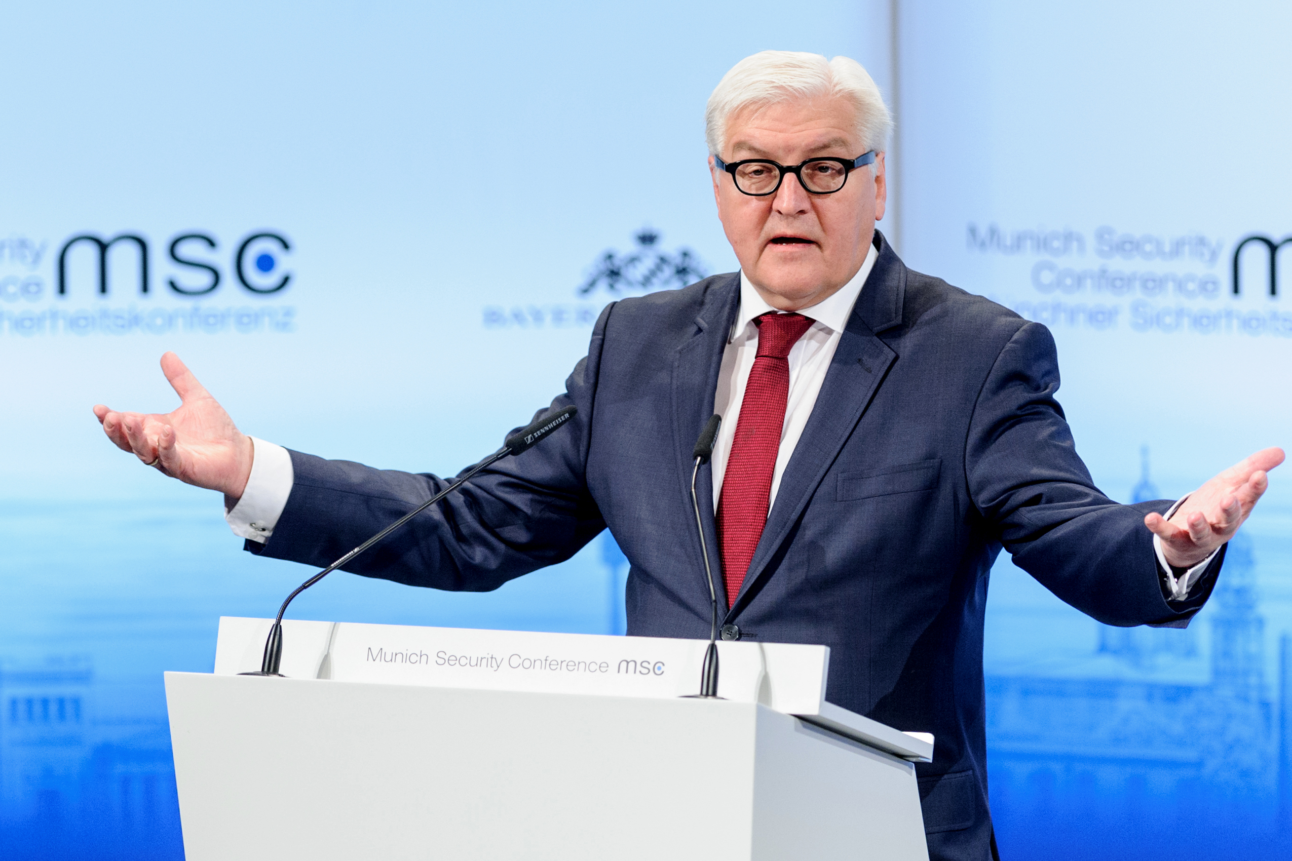 50th Munich Security Conference 2014: Frank-Walter Steinmeier: Frank-Walter Steinmeier (Federal Minister of Foreign Affairs, Federal Republic of Germany).